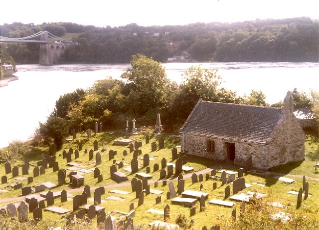 St Tysilio's Church on Church Island, Menai Bridge. The saint lived as a hermit on this island, before the causeway was built. This is the parish church of Llandysilio. The nave may have been the original one built in the 6C.